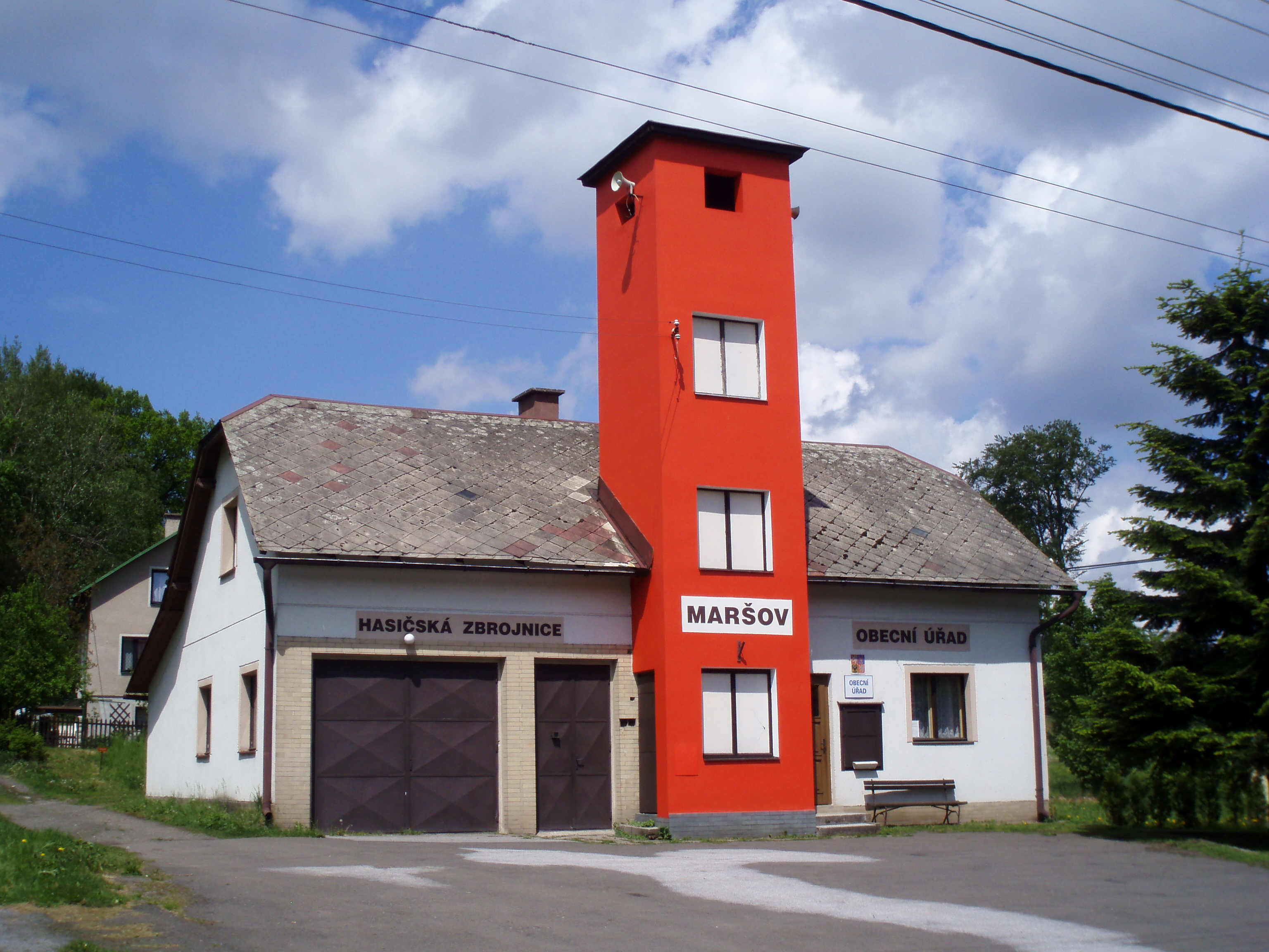 Firehouse and the local authority (Maršov u Úpice, Czechia)